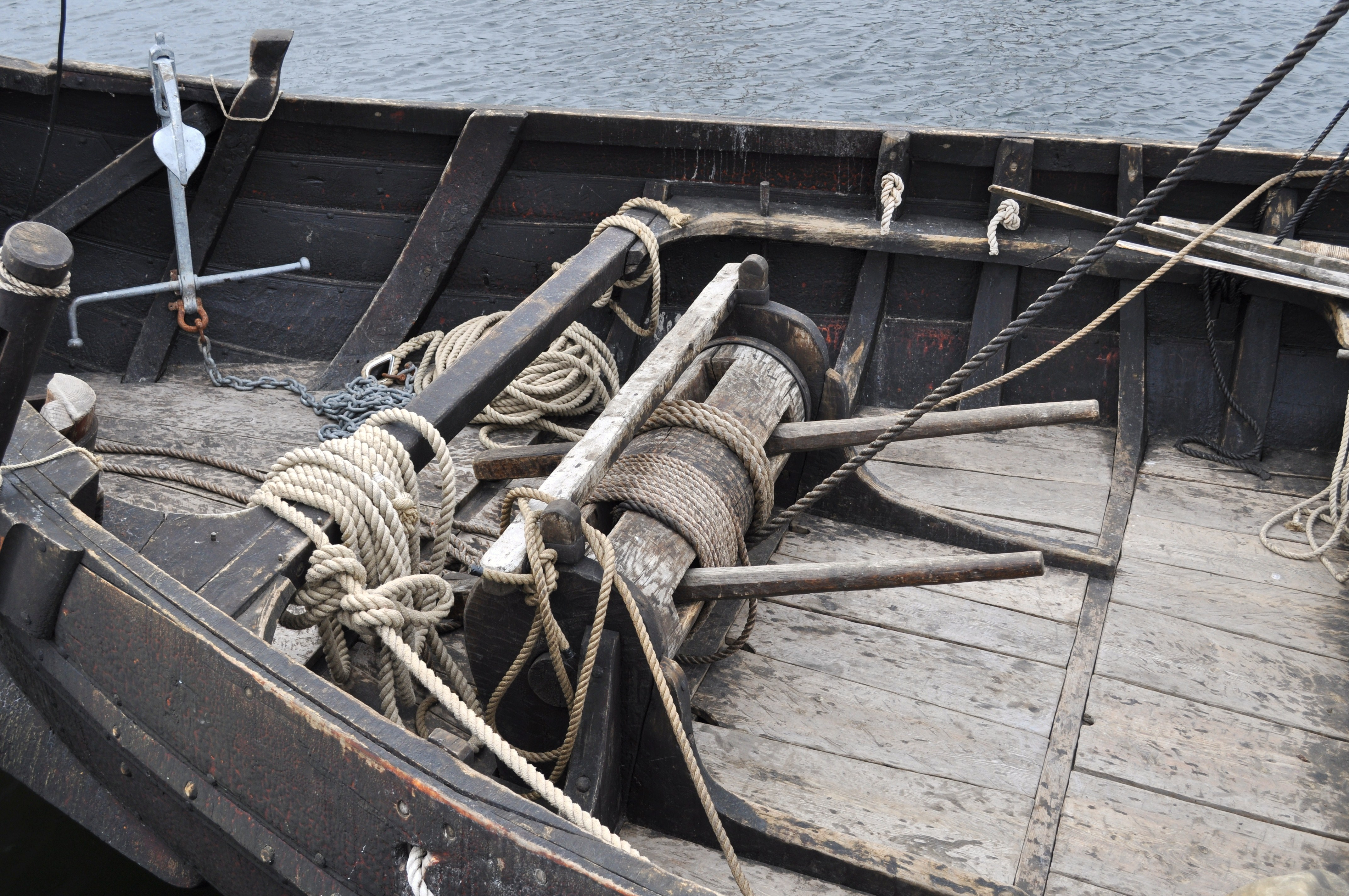 Vindspel-Viking Ship Museum